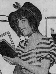 A young woman smiling in a costume with a bonnet and a striped dress, holding a book.